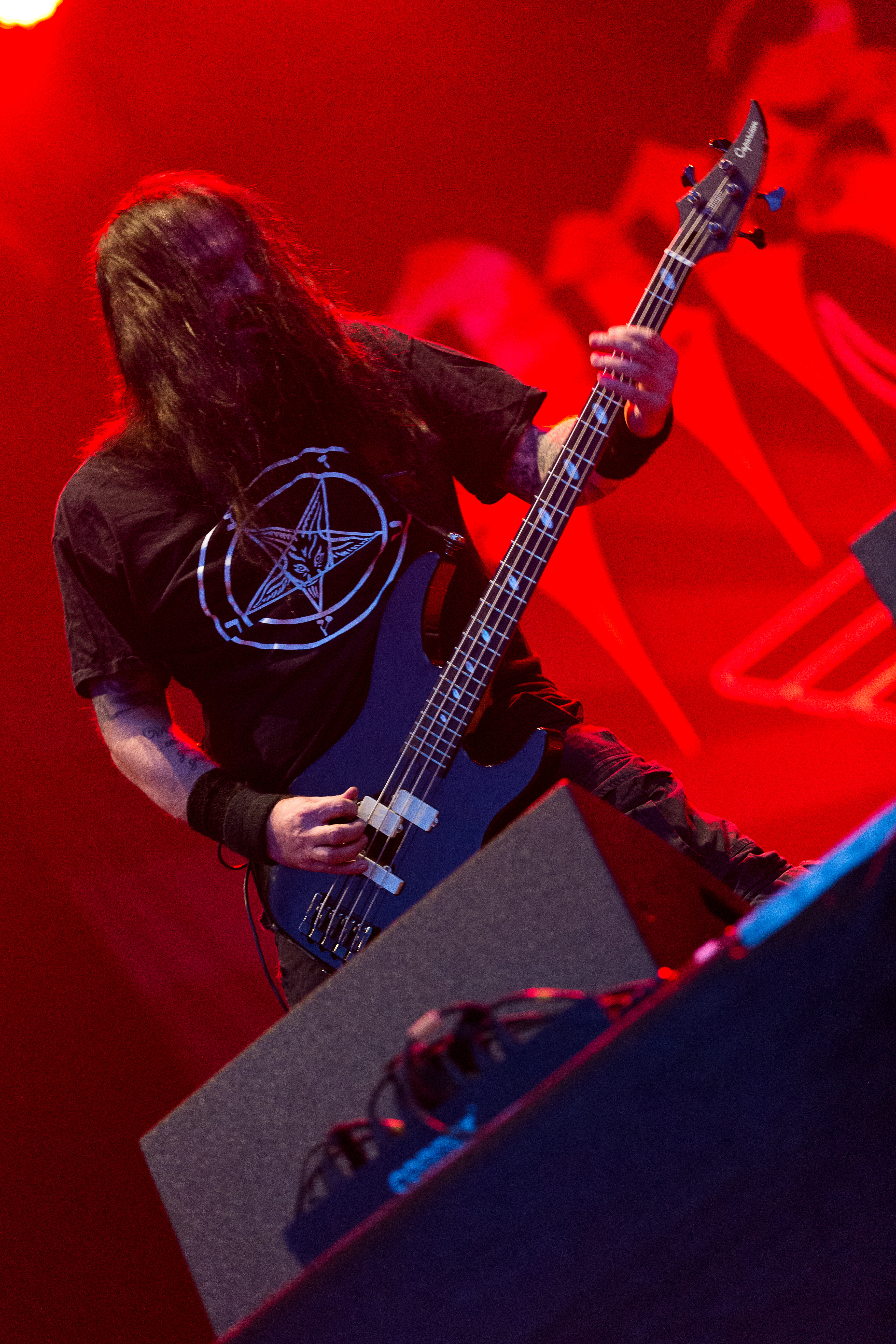 The British thrash metal band Onslaught at the Rockharz Open Air 2016 in Ballenstedt/Germany.